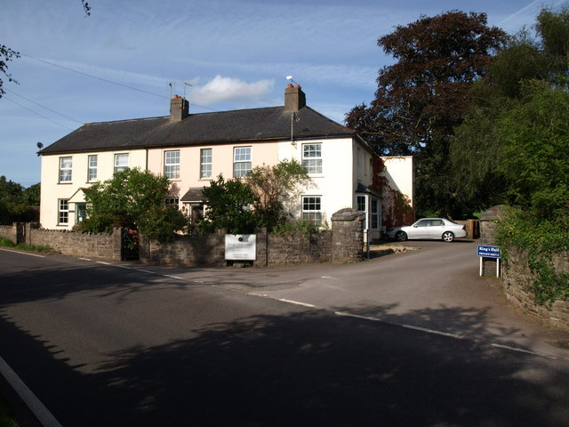 Houses at Rapshill This trio of cottages is on the Taunton - Kingston St Mary road, at Pyrland Gate, which is the entrance to King's Hall School.